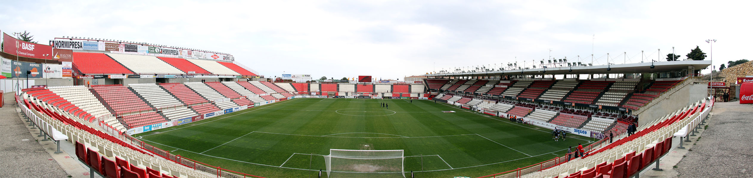 Panorama of Nou Estadi de Tarragona